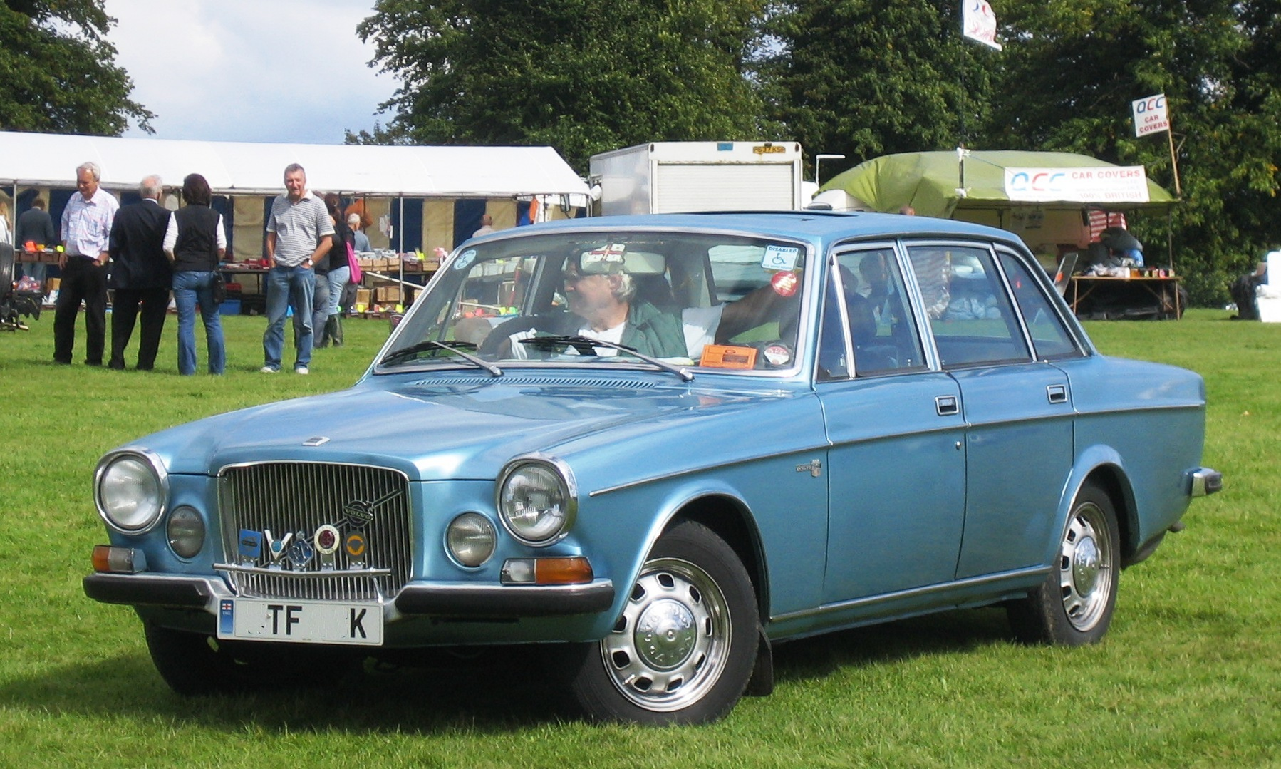 Volvo 164E in a field in Hertfordshire